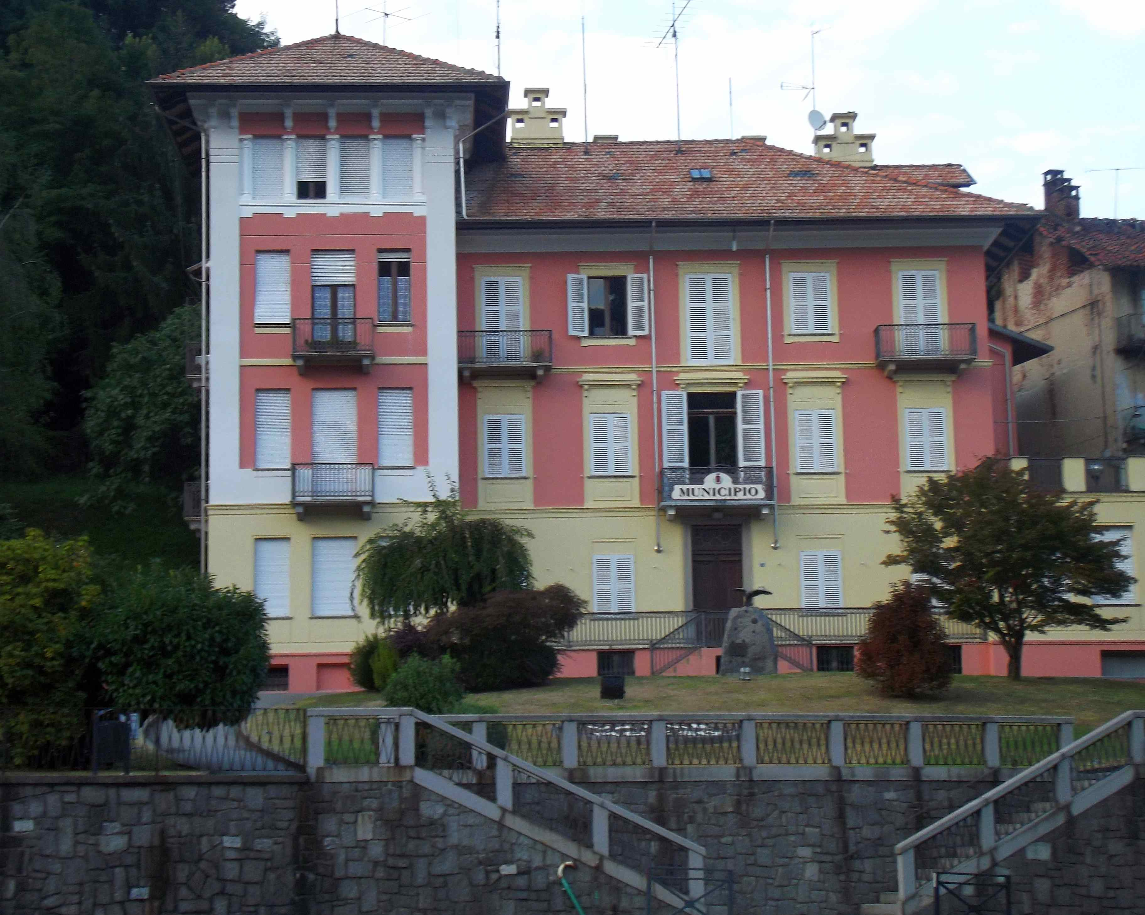 Valle Mosso (BI, Italy): town hall